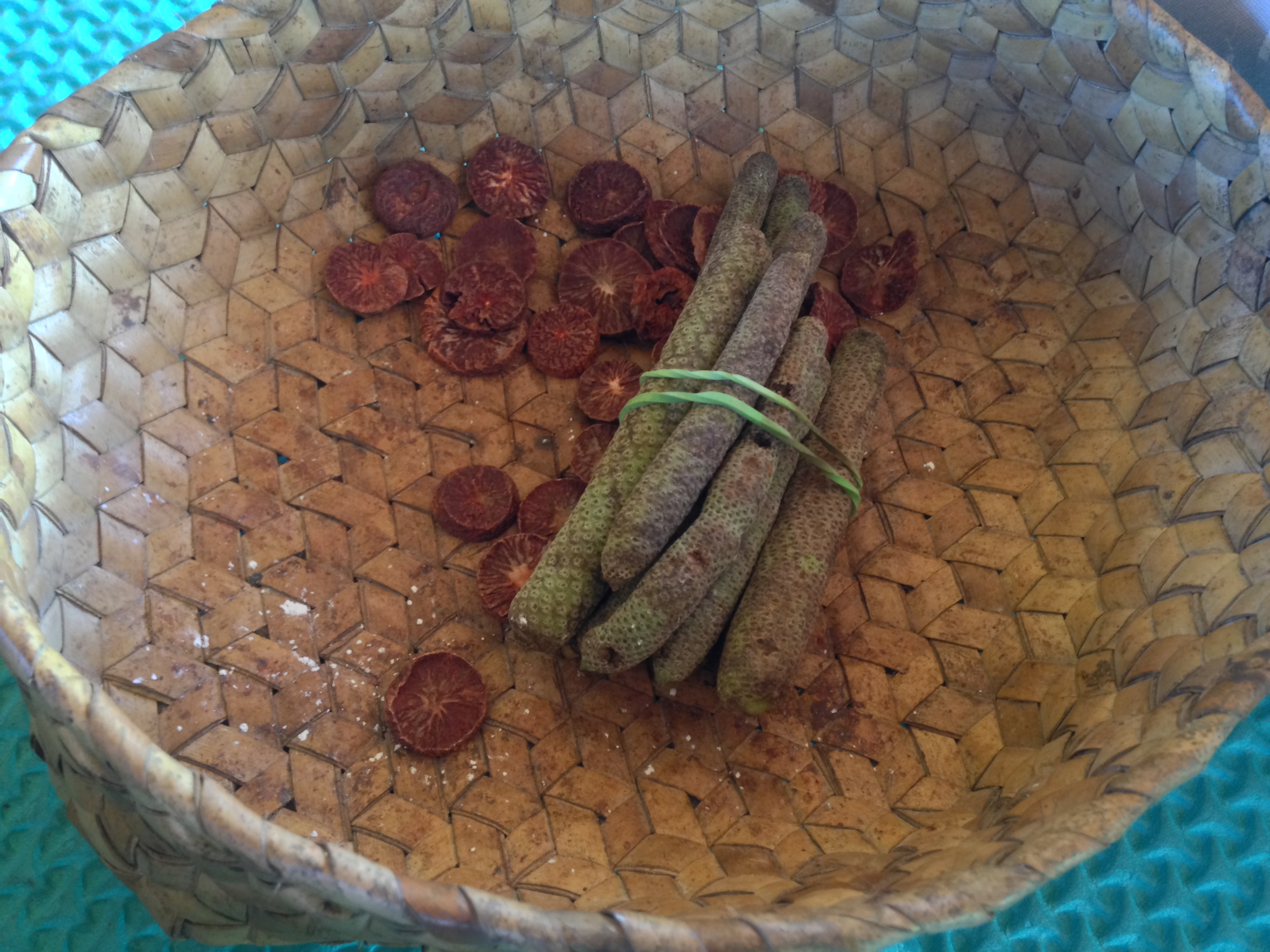 Sirih Pinang or Paan